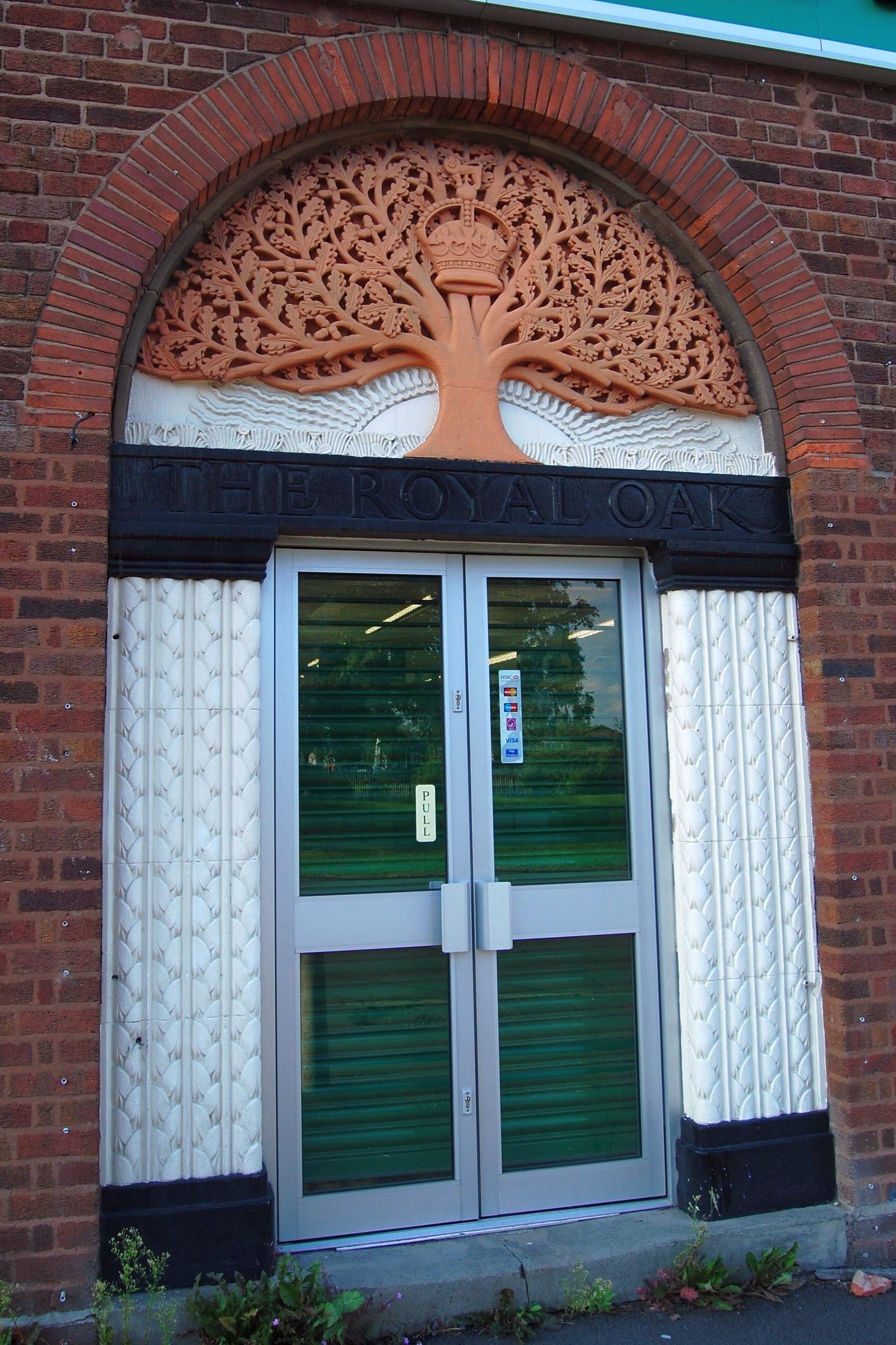 Doorway of the Royal Oak public House, Lozells Road, Lozells, Birmingham, England. The art deco carving is by William Bloye.